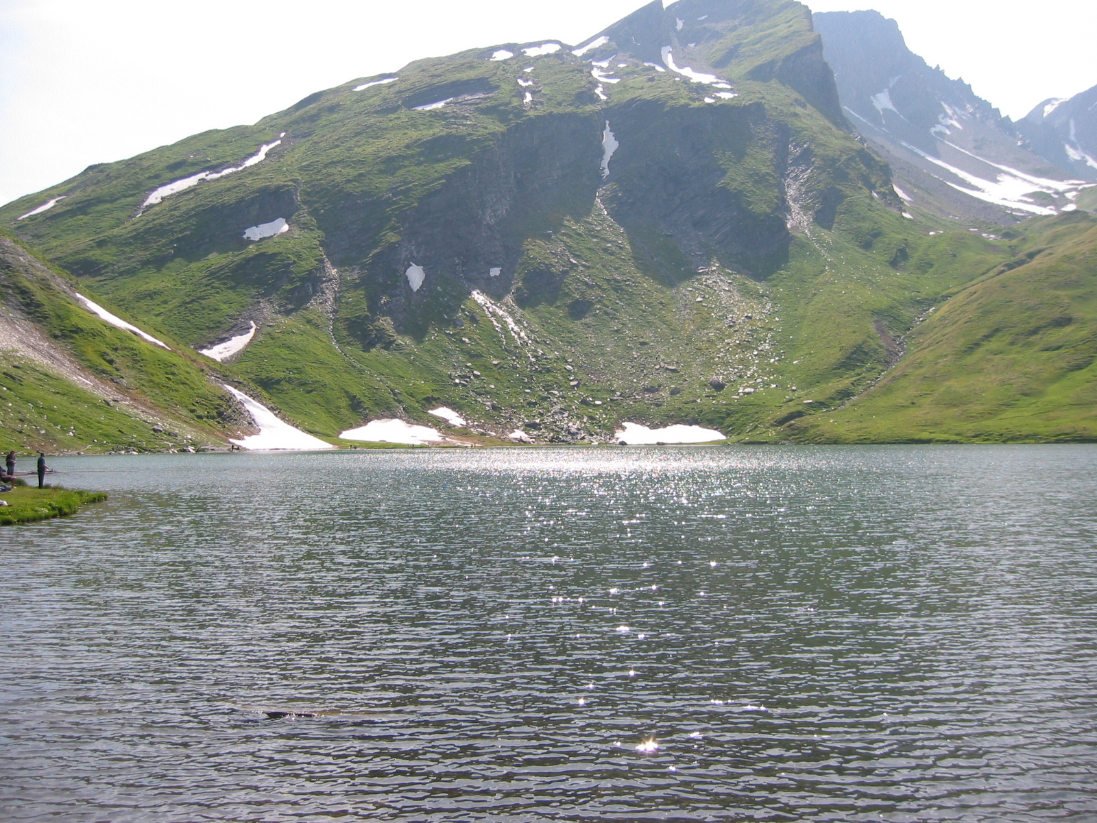 La Thuile (AO Italy) - Lago Verney